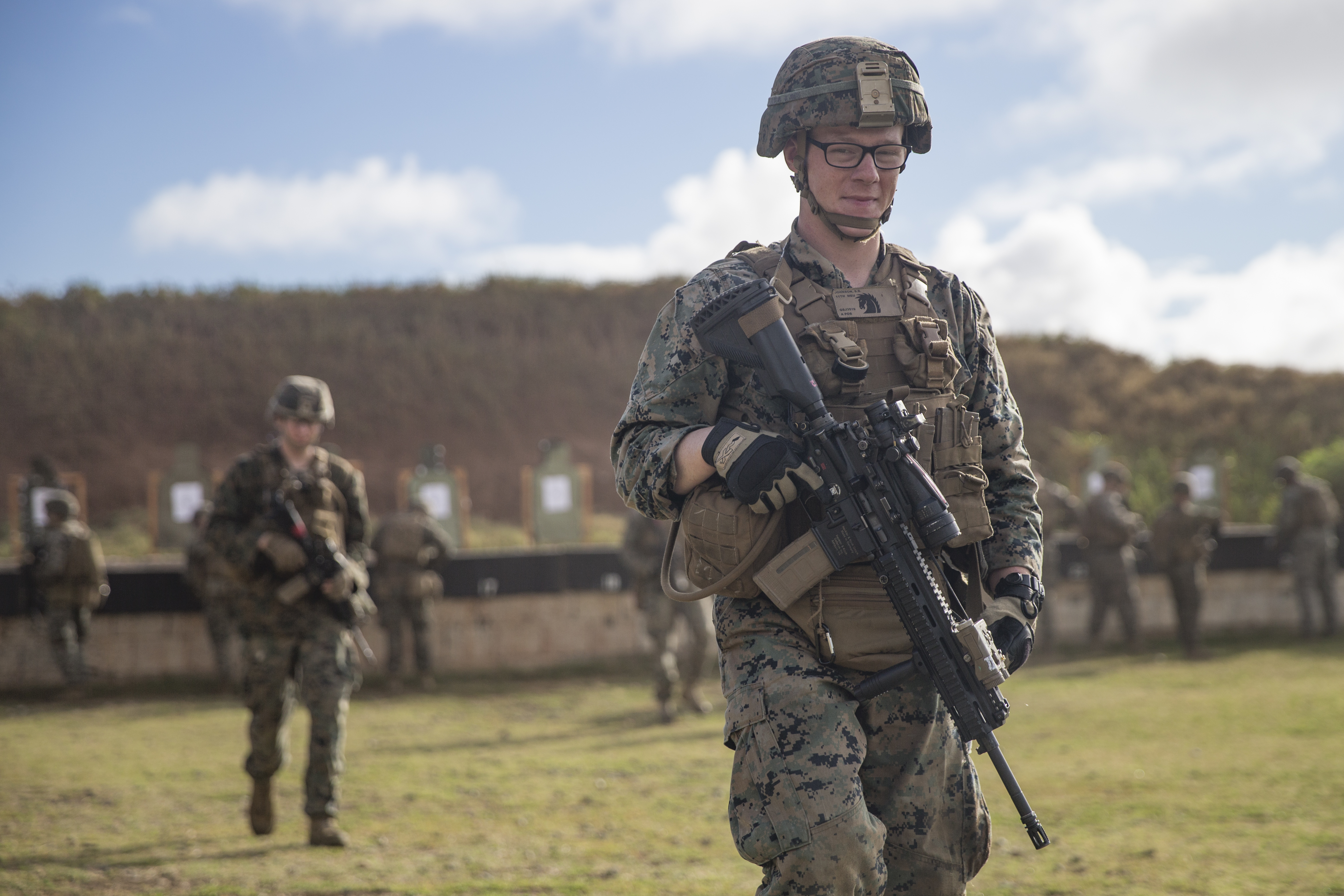 marines training